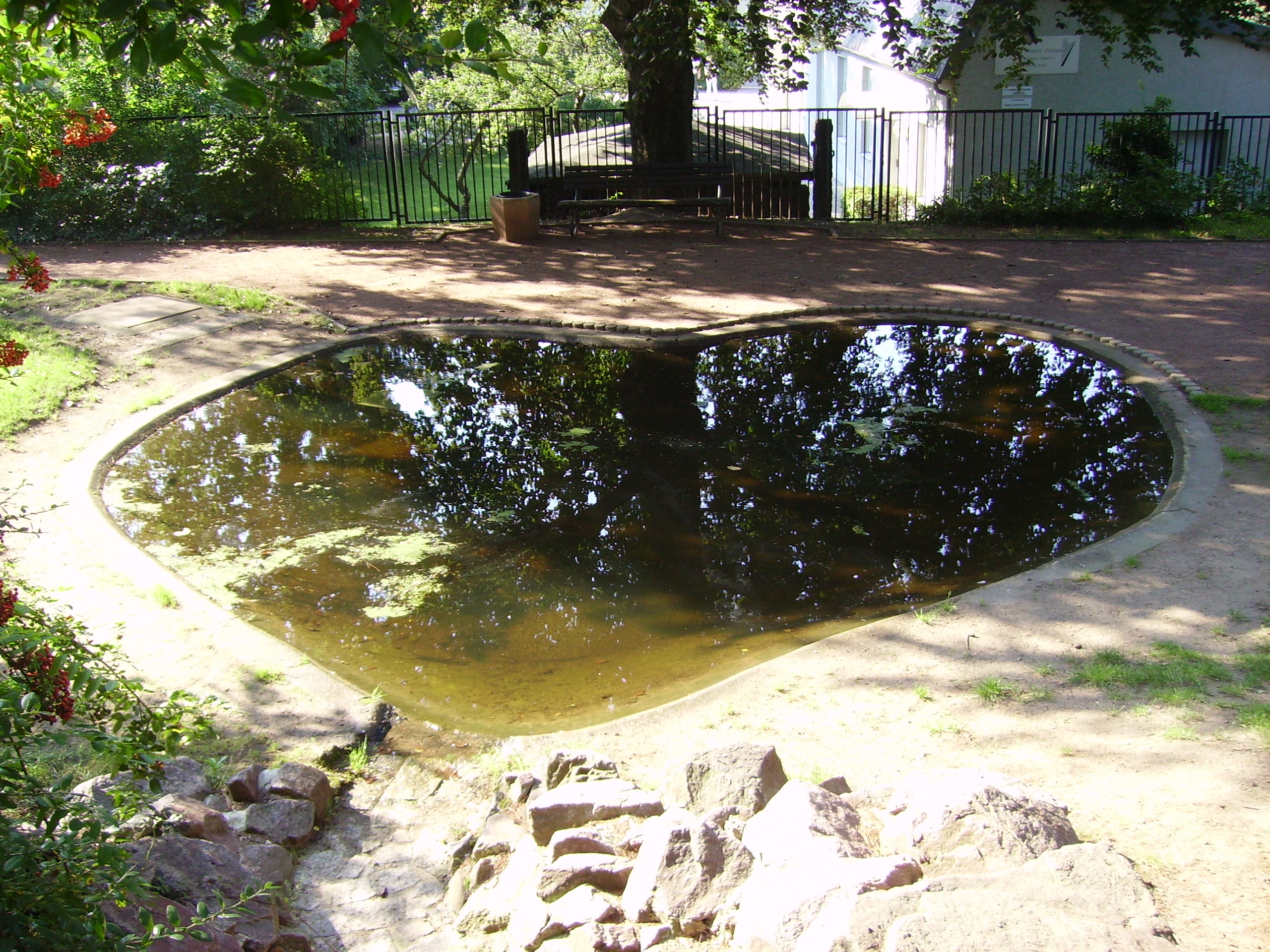 Karl May Museum in Radebeul (Dresden, Germany)